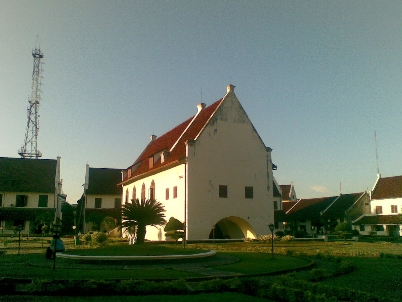 The Ex Dutch Church inside Fort Rotterdam